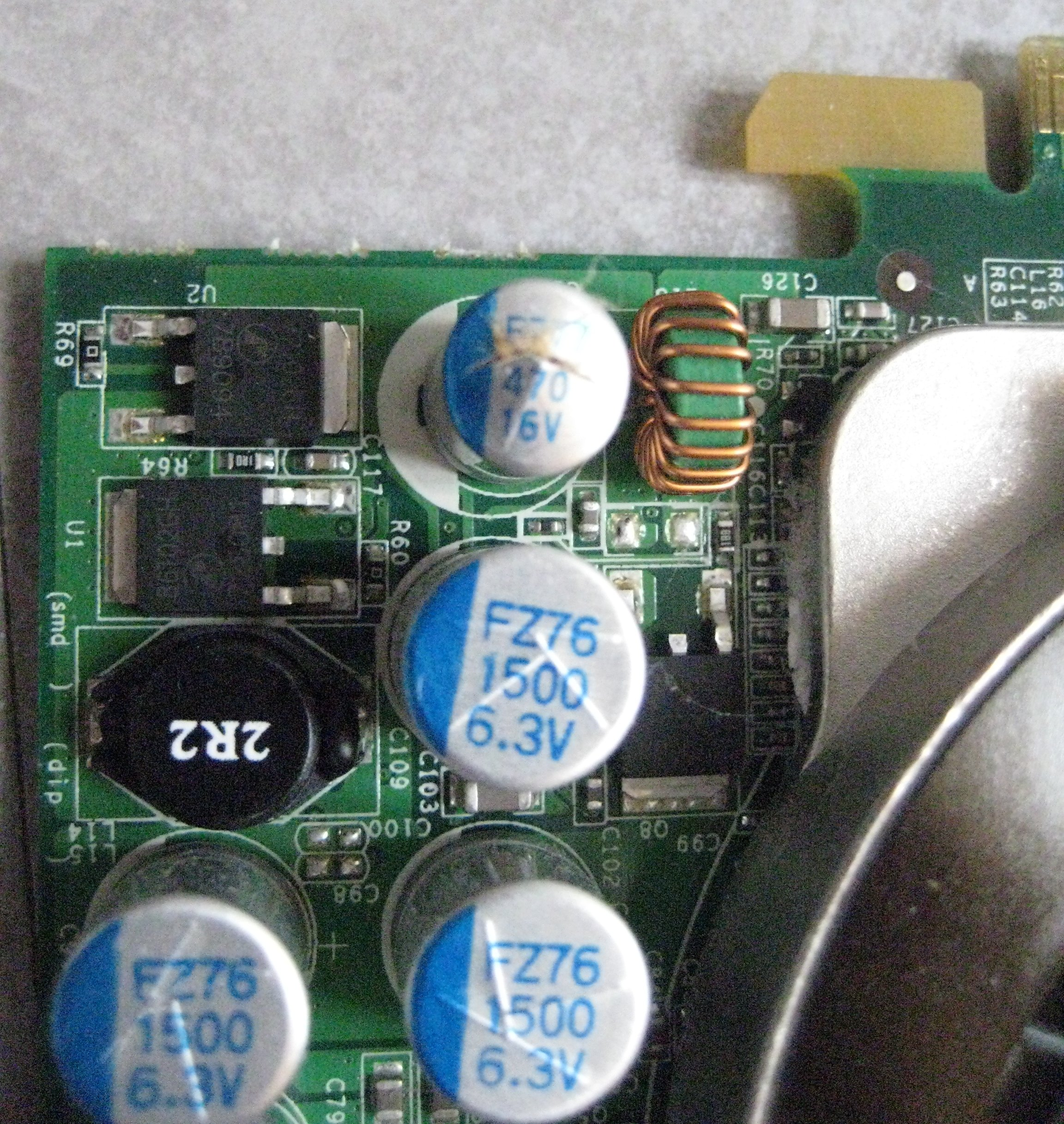 On a EVGA NVIDIA GeForce 8600 GTS. Capacitor labeled FZ77, 470, 16V. I'd guess that dust buildup caused a short that blew it. UPDATE: Other people having the same issue. do maybe it is a defect inherent to this capacitor Using my laptop to post this. Best Buy was closed; I think because of the snow. Found my newer camera to take this shot in my laptop bag. Still need to find the battery charger for it. IMG_1210